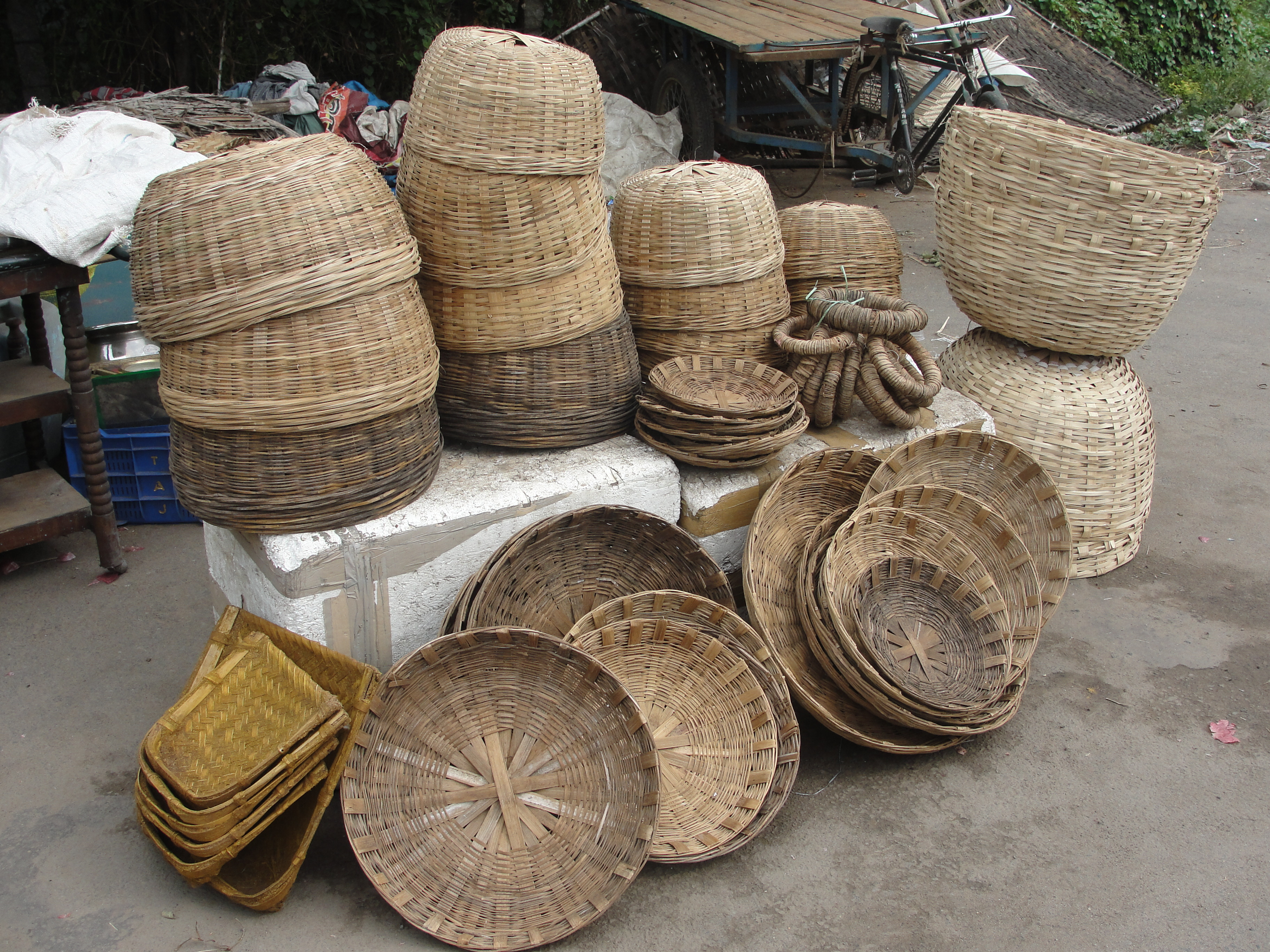 இப்படத்தில் ஒரு முங்கில் கூடை கடை இடம் பெற்றுள்ளது. முங்கில் கூடைகள் தமிழ்ப்பண்பாட்டில் உரிய இடம் பெற்றுள்ளது.